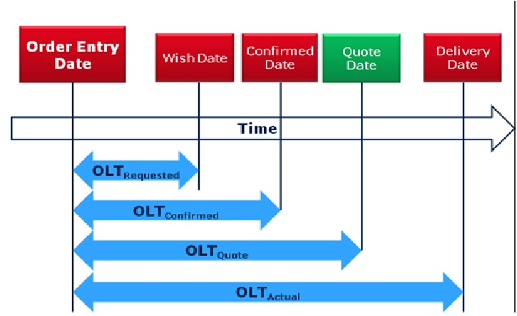 The image shows the different types of Order Lead Time that exist over a time horizon.